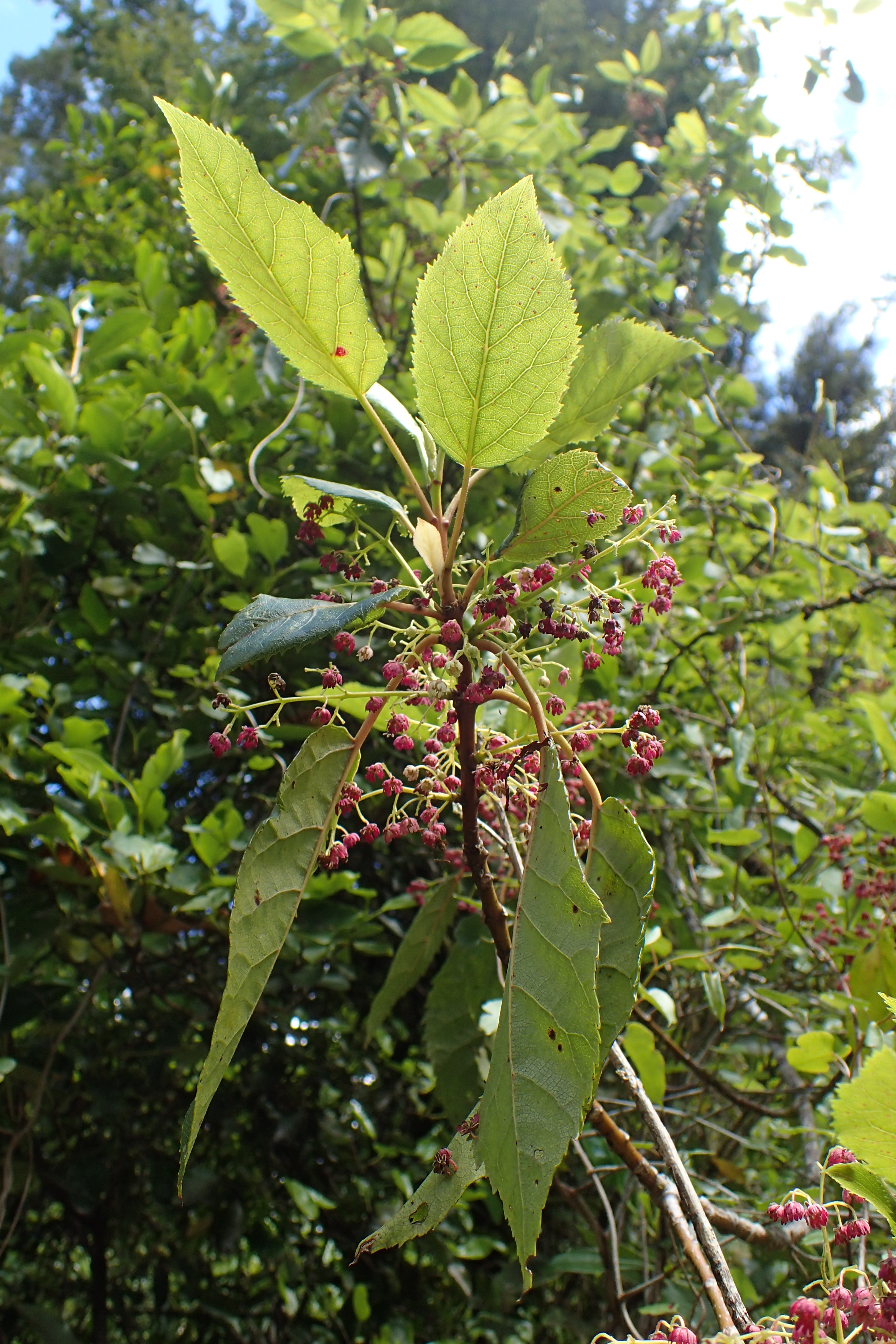 Aristotelia serrata in Rotoroa, Tasman (New Zealand)